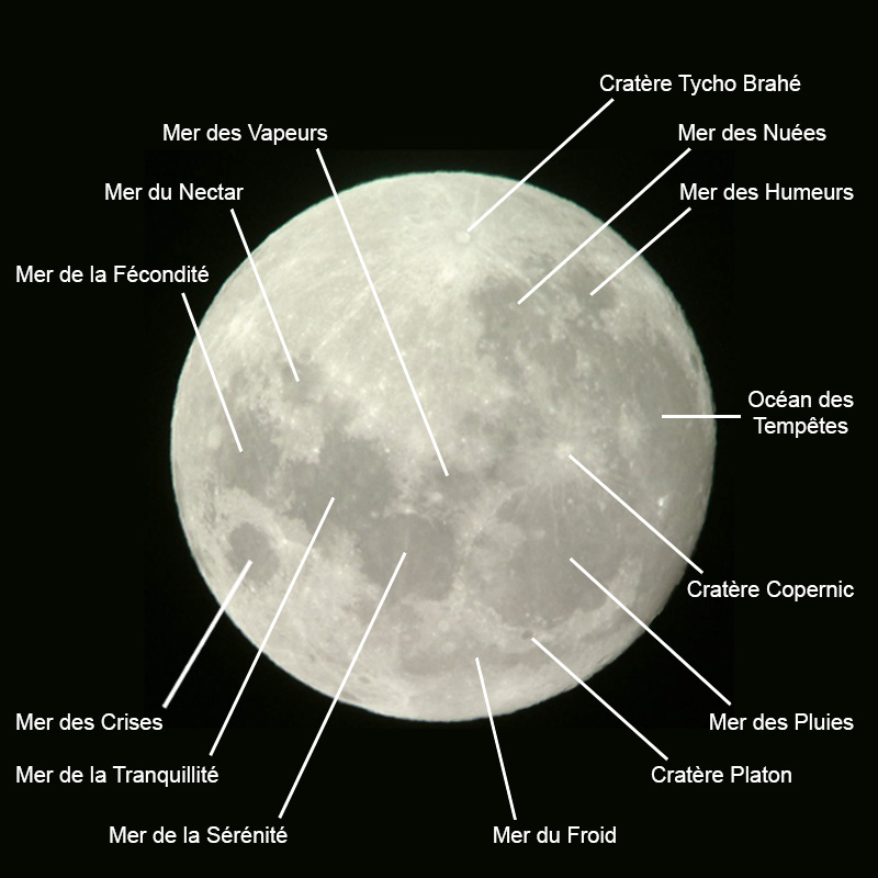 Map in French of the Moon showing the maria and the major craters. Note: The Moon is showed as seen through an astronomical instrument.